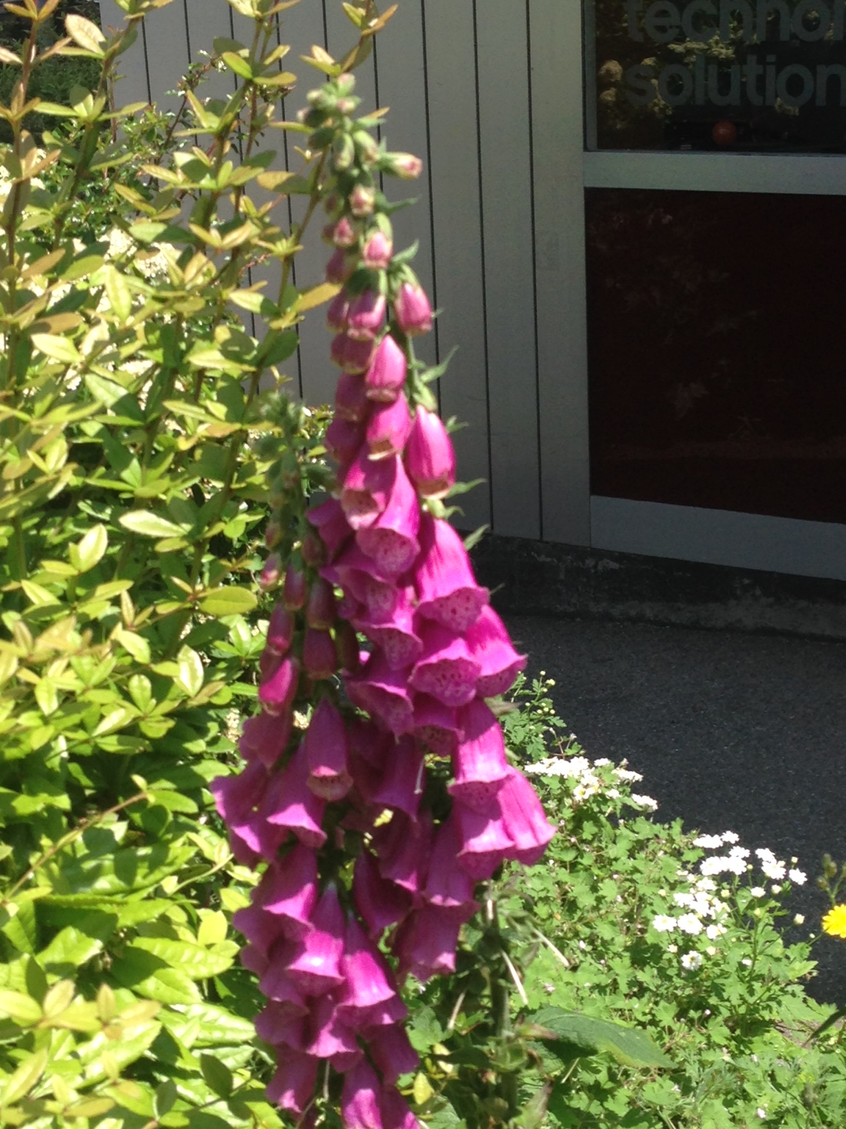 Digitalis purpurea in a garden.